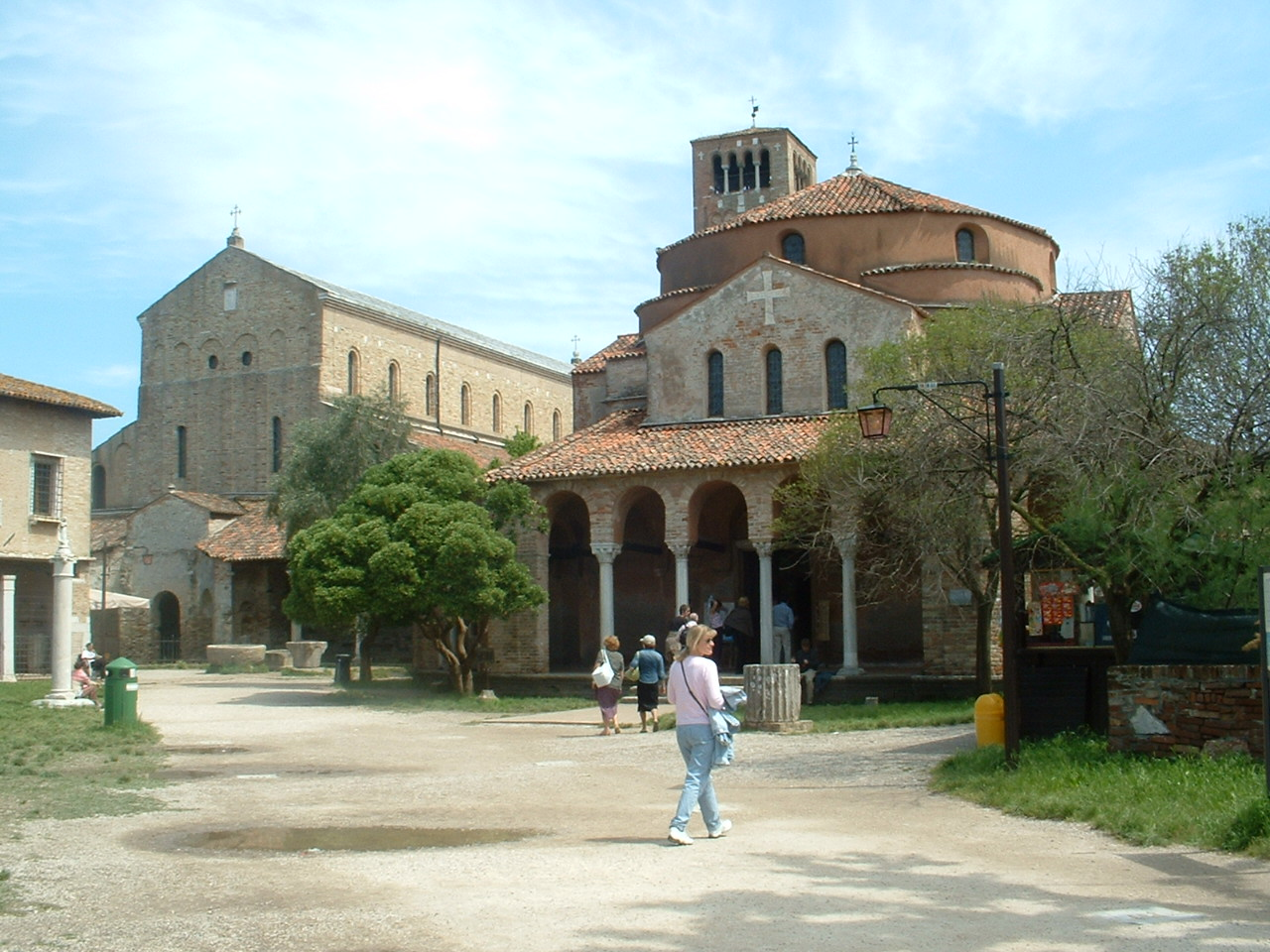 Cathedral of Santa Maria Assunta and Santa Fosca, Torcello. Photo taken by Necrothesp, en:14 May en:2004.